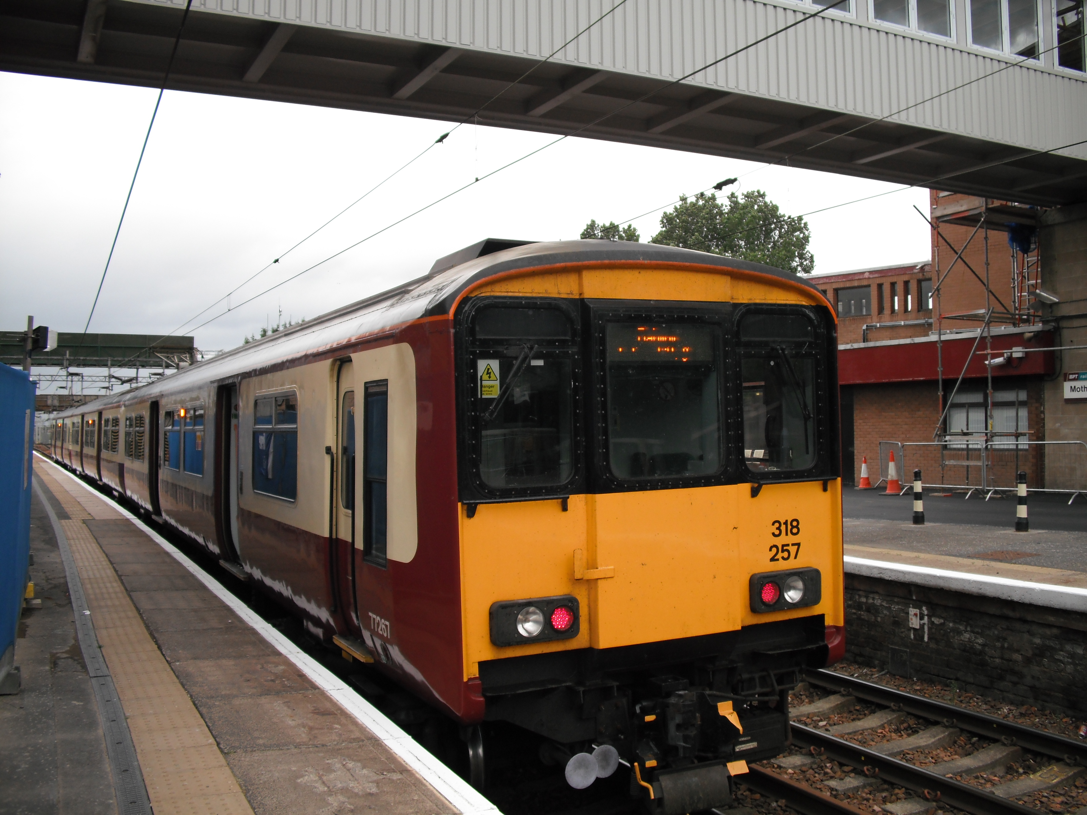 318 at Motherwell